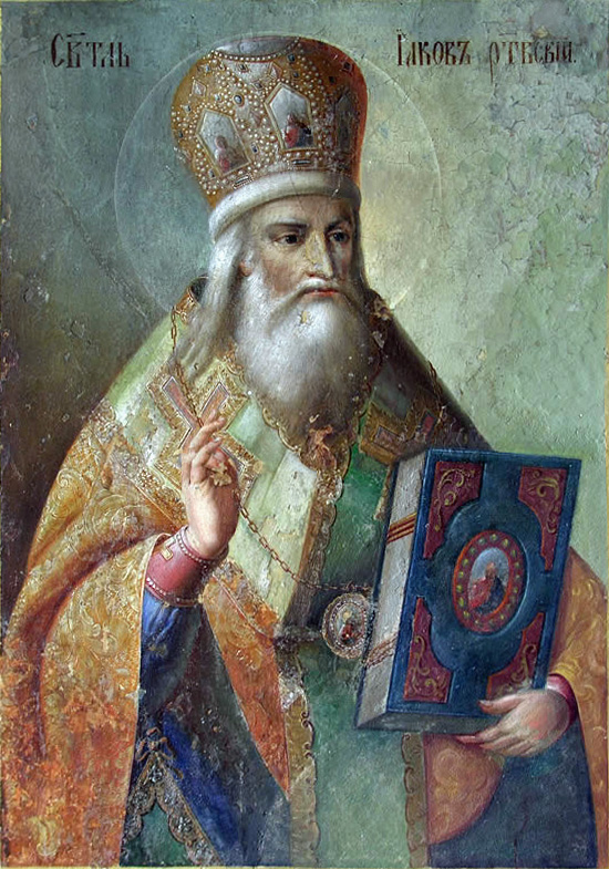 Iakov of Rostov